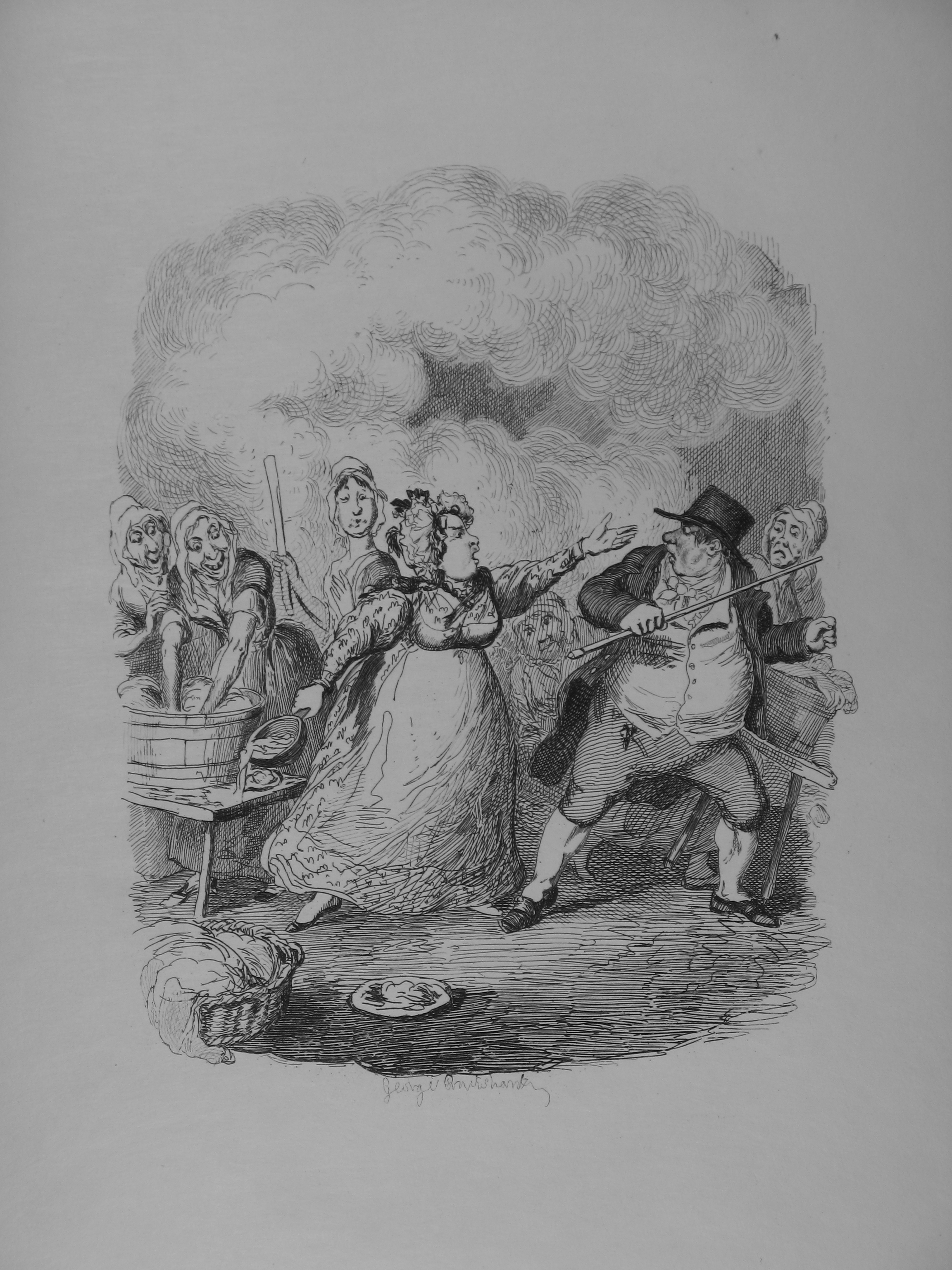 A photograph of an engraving in The Writings of Charles Dickens volume 4, Oliver Twist, titled "Mr. Bumble degraded in the Eyes of the Paupers".